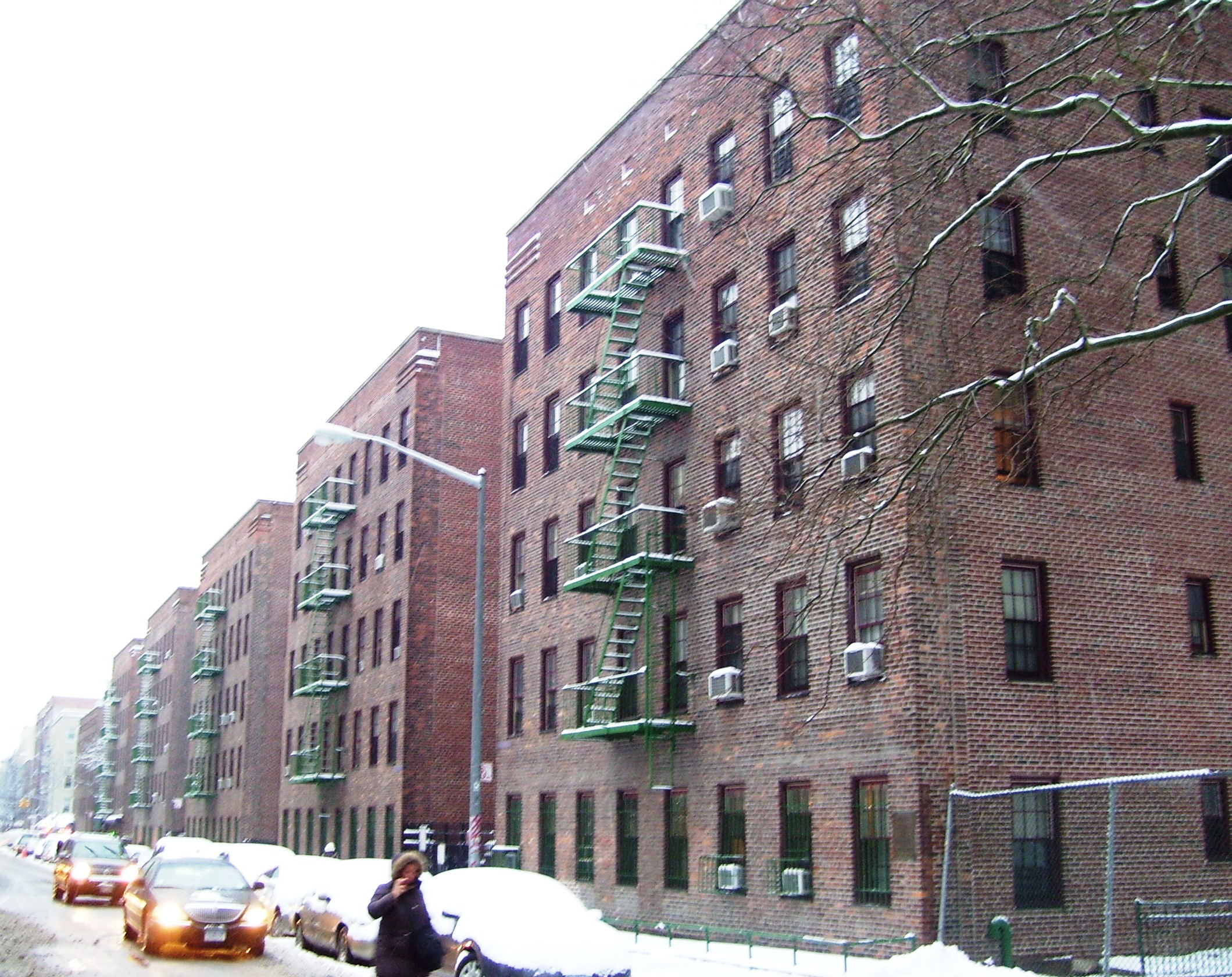 First Houses on East 3rd Street between First Avenue and Avenue A inthe East Village neighborhood of Manhattan, New York City, seen during the seventh snowstorm of the 2010-2011 season.